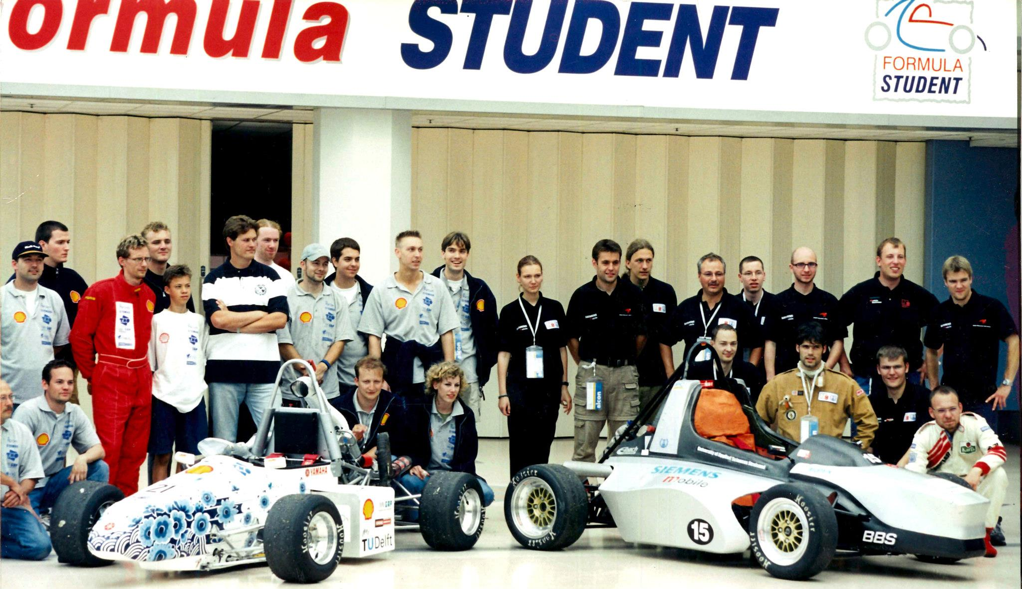 Formula student teams photo